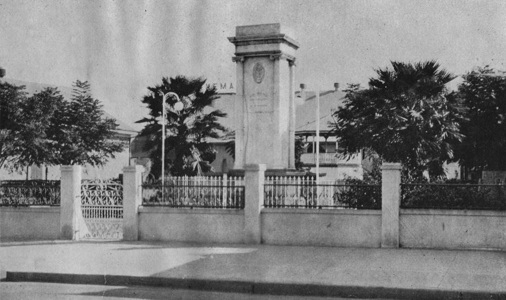 War memorial at Charleville, ca. 1939. Charleville is the largest town in South West Queensland and has a population of approximately 3300 people. It is a rich pastoral area and was first explored by Edmund Kennedy in 1847. Charleville was named by Surveyor W. Tully for his hometown in Ireland. Cobb and Co established their largest and longest running coach making factory in Charleville in 1886 and the railway line was connected from Brisbane in 1888. Charleville was one of the first airports used by Qantas to fly paying passengers to Longreach in 1922. It is also home to the Royal Flying Doctor Service and the Charleville School of the Air.